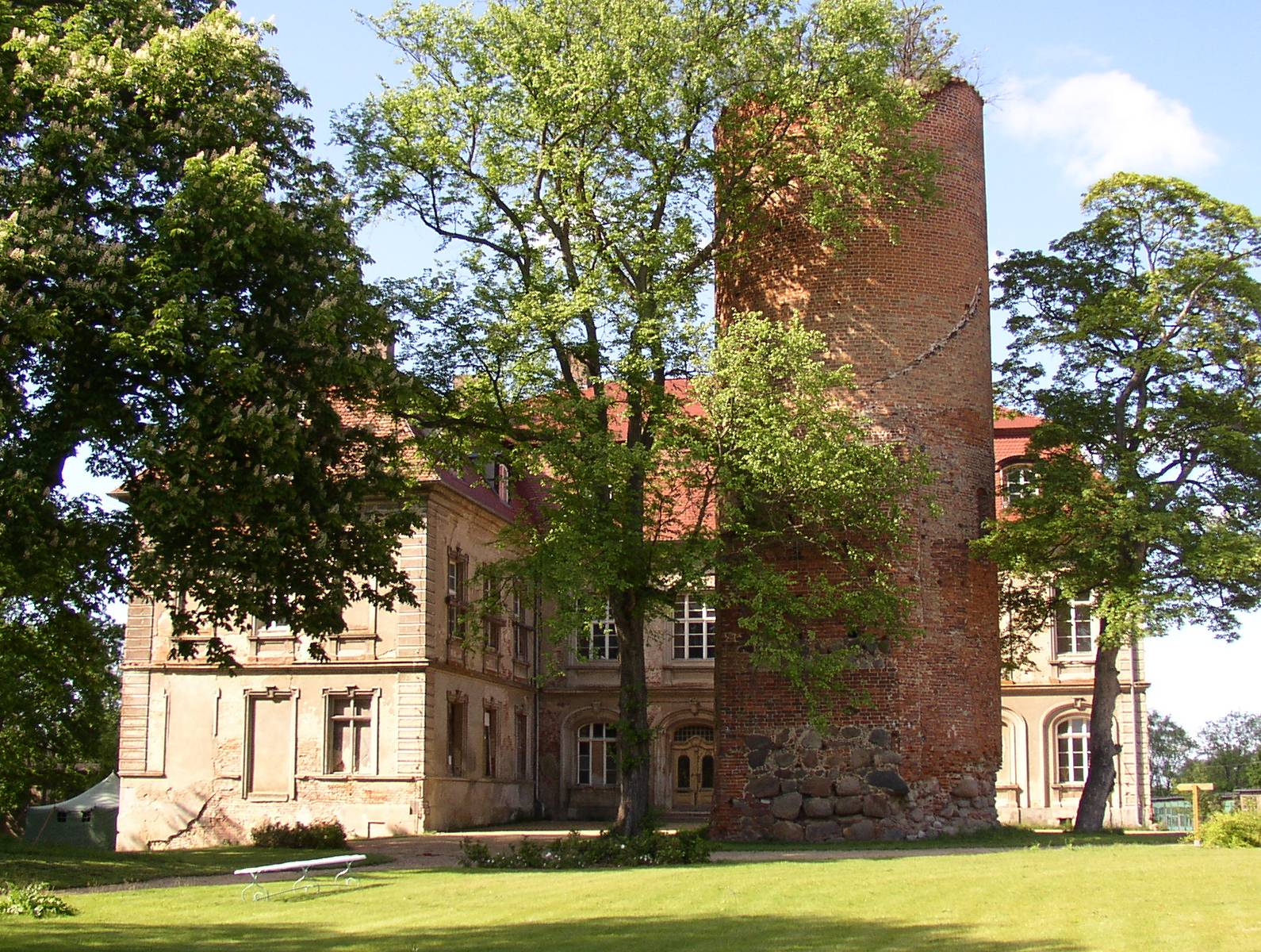 Palace in Zichow in Brandenburg, Germany